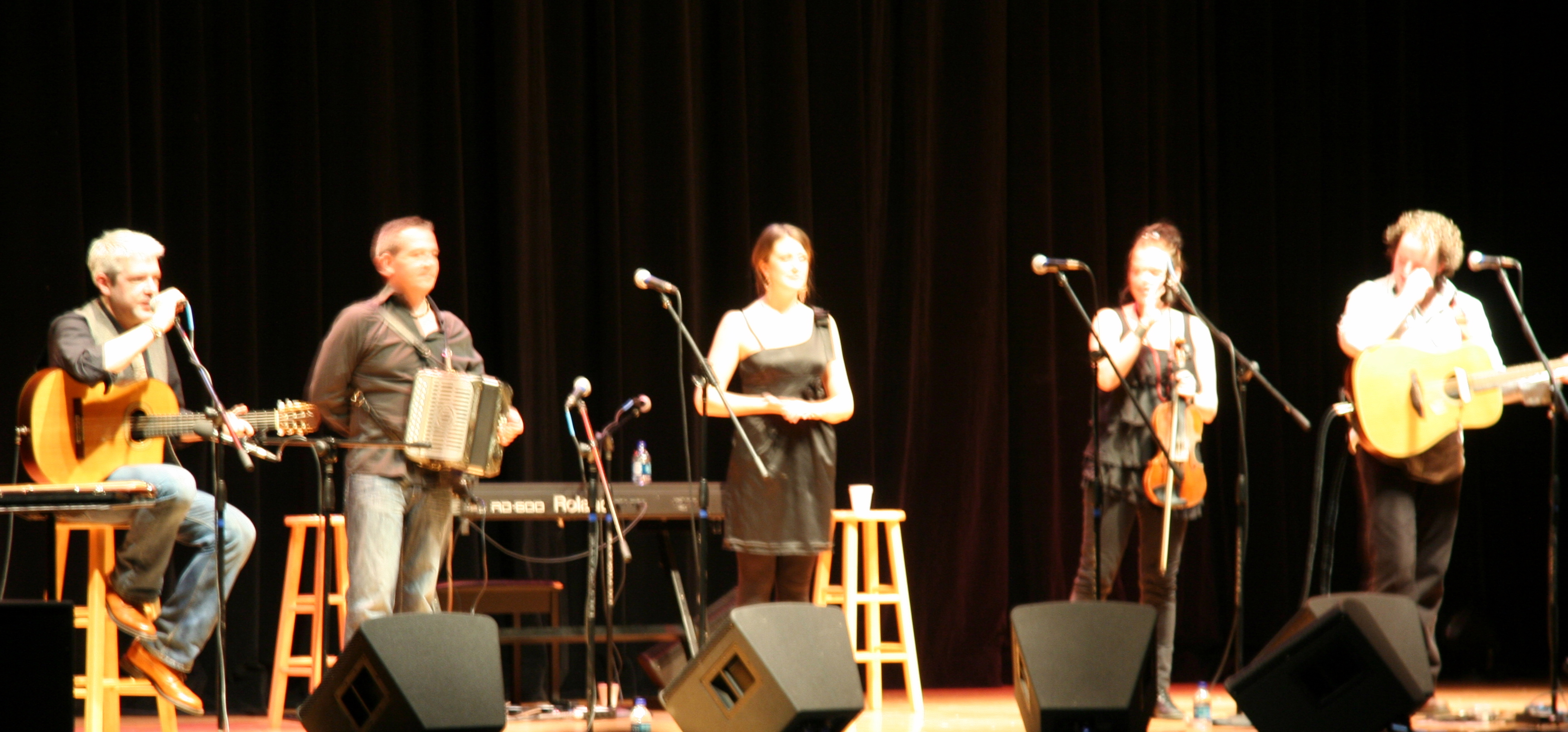 The Irish-American musical group Solas on stage near the end of a concert at the Mayo Civic Center in Rochester, Minnesota